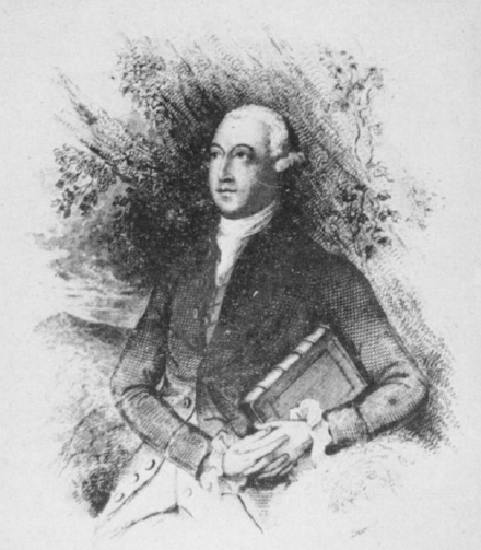 Thomas Pennant